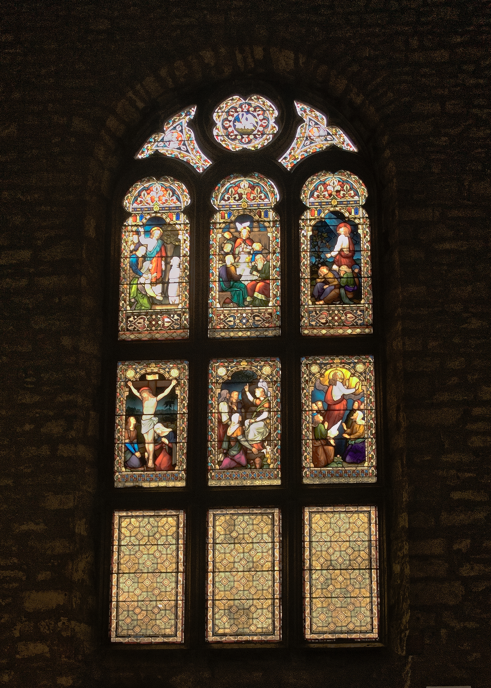 Tron Kirk, Edinburgh - interior.